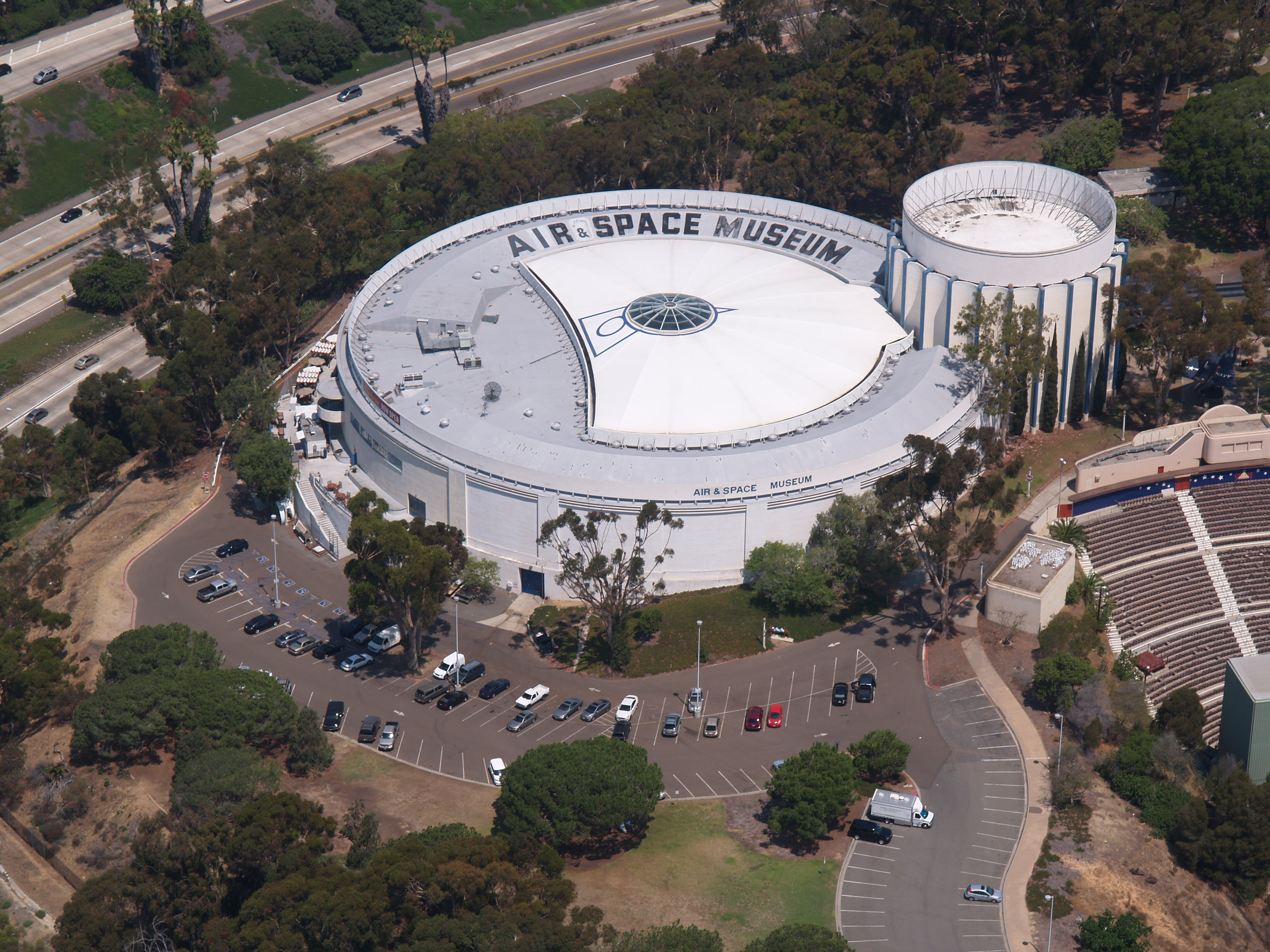 The San Diego Air and Space Museum as seen from overhead. - Attribution to: Phil Konstantin